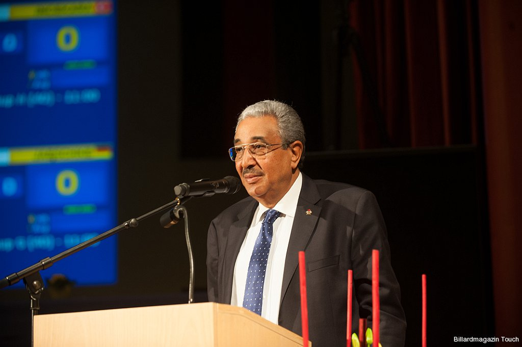 see file name